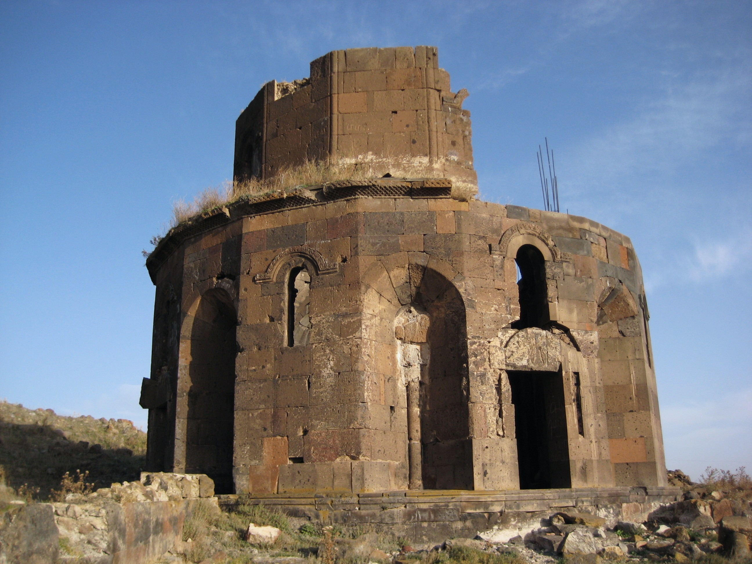 Gharghavank